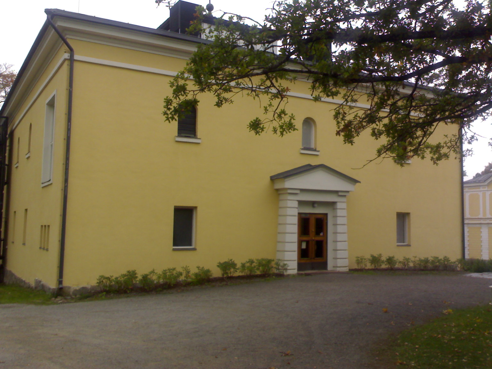 Hämeenlinna Art Museum in Hämeenlinna, Finland